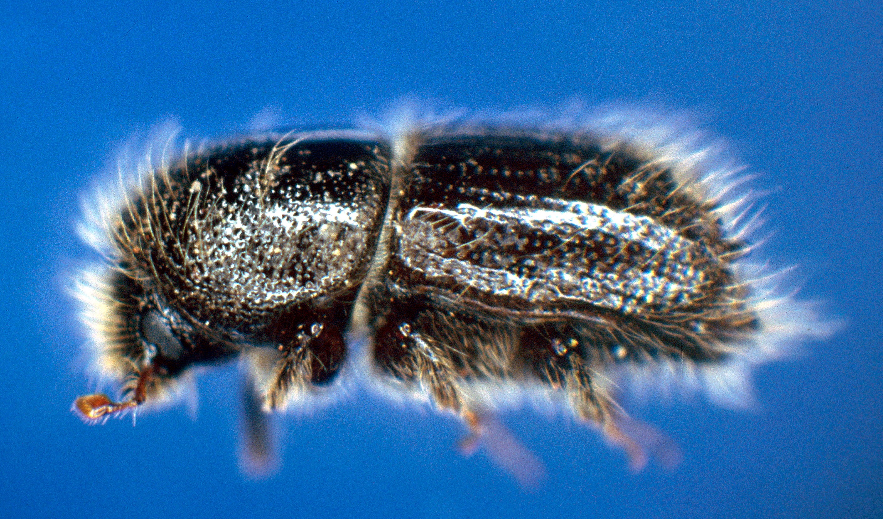 Ips typographus collected from Picea abies, France